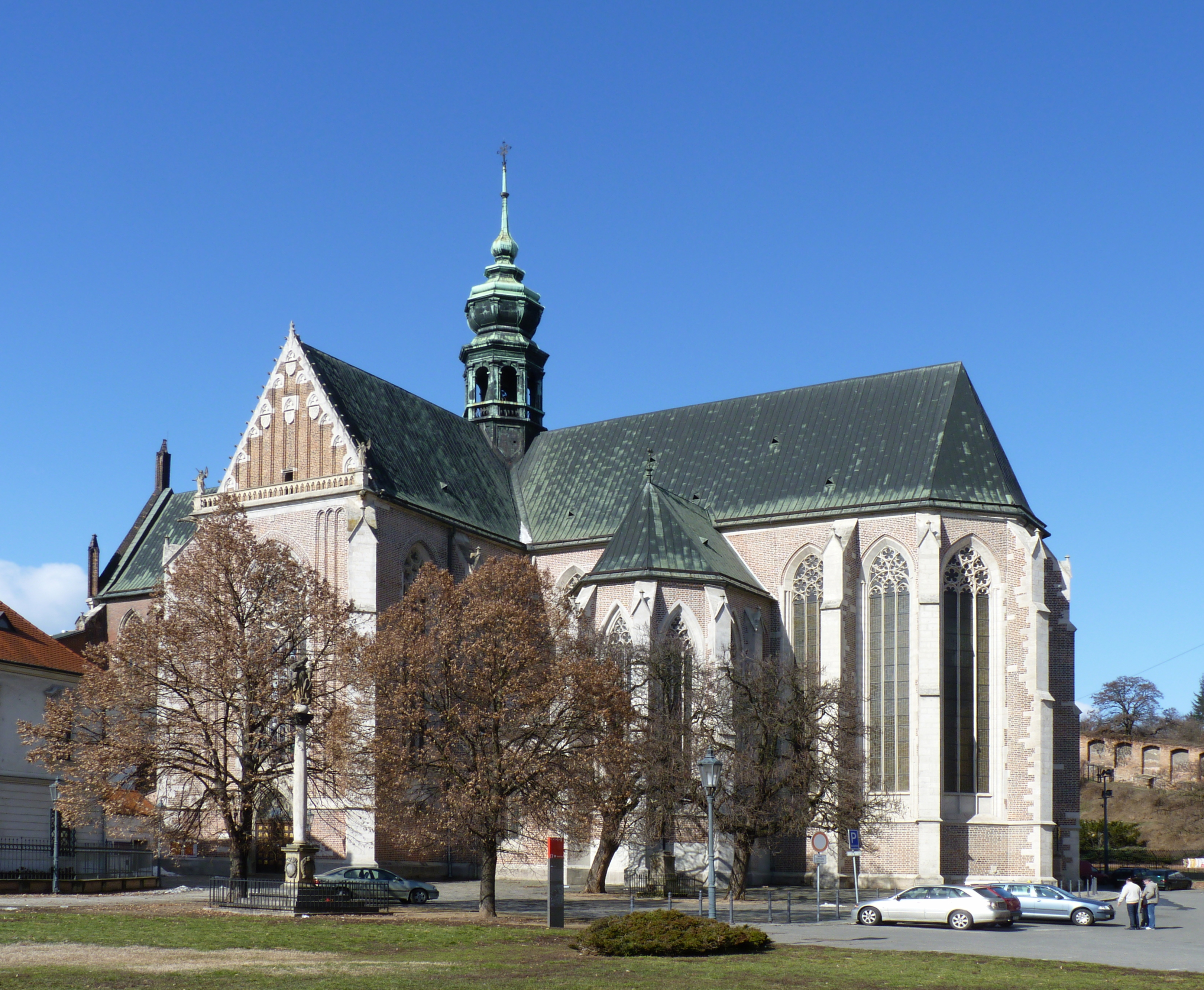 Basilica of the Assumption of Our Lady at Mendel Place, Old Brno, Czech Republic